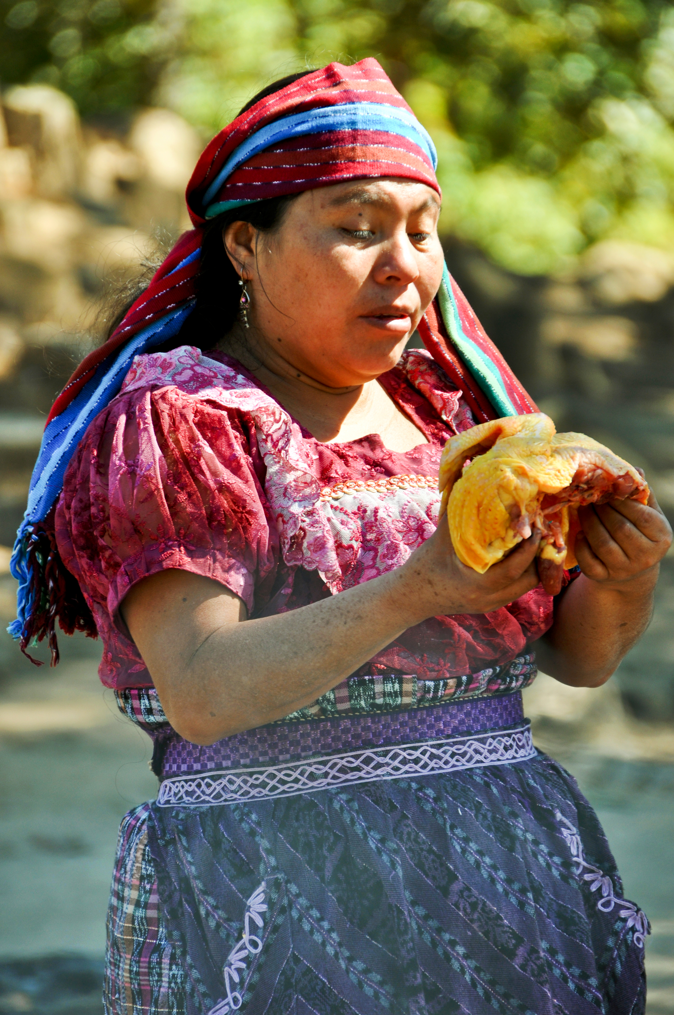 guatemala iximche woman mayan ritual chicken sacrifice